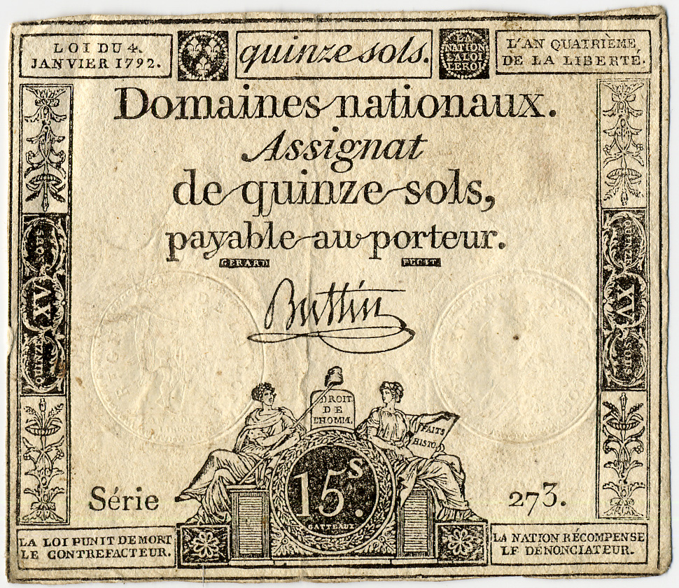 Assignat for 15 sols. Dimensions: 17.9cm × 6.8cm.